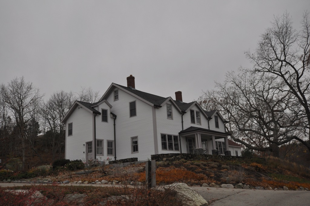 The 1850s (now former) Minot's Ledge lightkeeper's house at Government Island, Cohasset, Massachusetts.